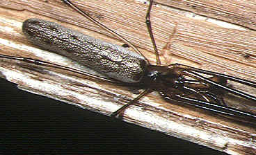 female Tetragnatha maxillosa from Okinawa.